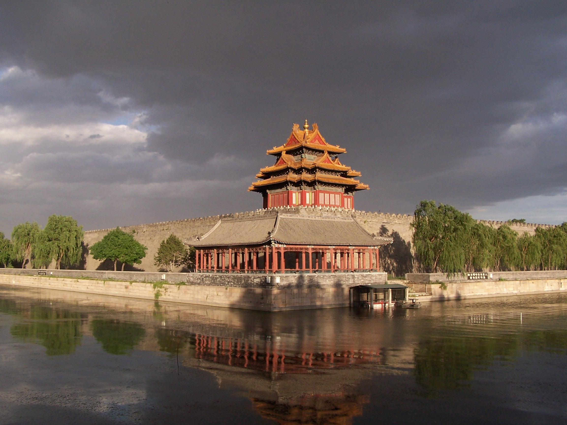 Sunset of the Forbidden City, Beijing (northwest cornor of the Forbidden City)